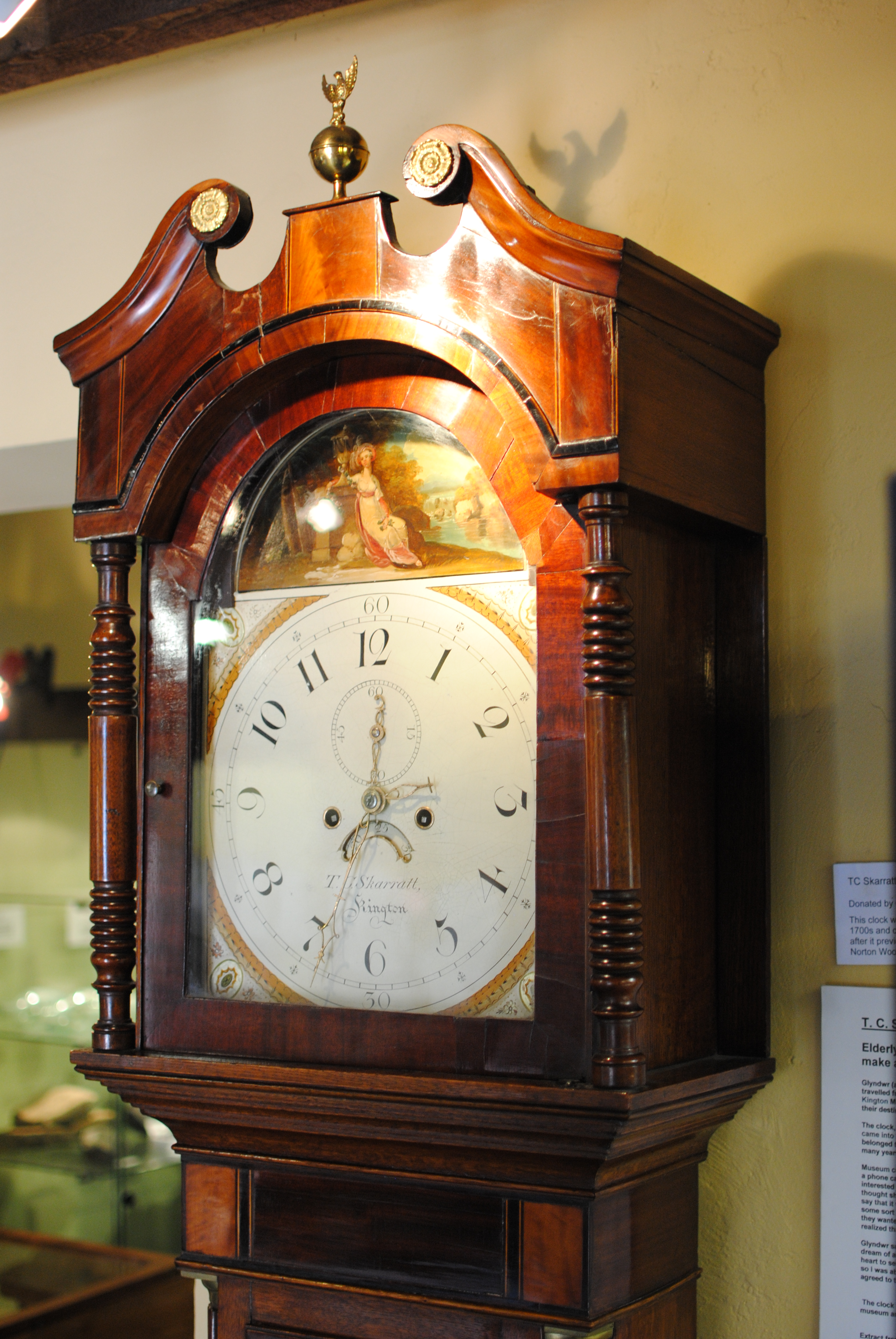 Long case clock marked "T. C. Skarratt, Kington", made in Kington, Herefordshire, England, in the 1700s, now in Kington Museum.